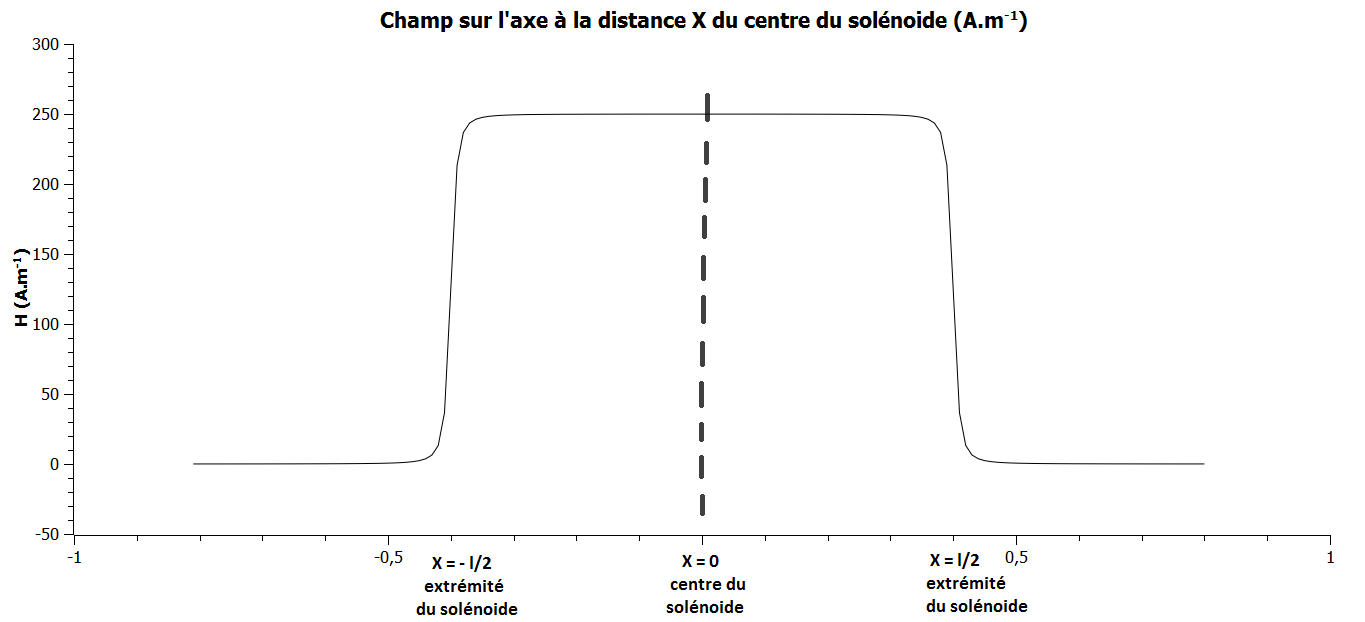 Axial magnetic field on the symmetry axis of a thin long solenoid.